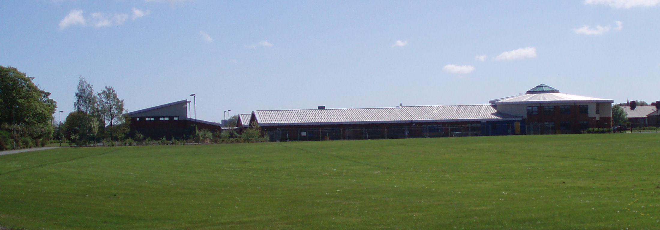 A Photograph of Gosforth Central Middle School, Gosforth, Newcastle upon Tyne, England.